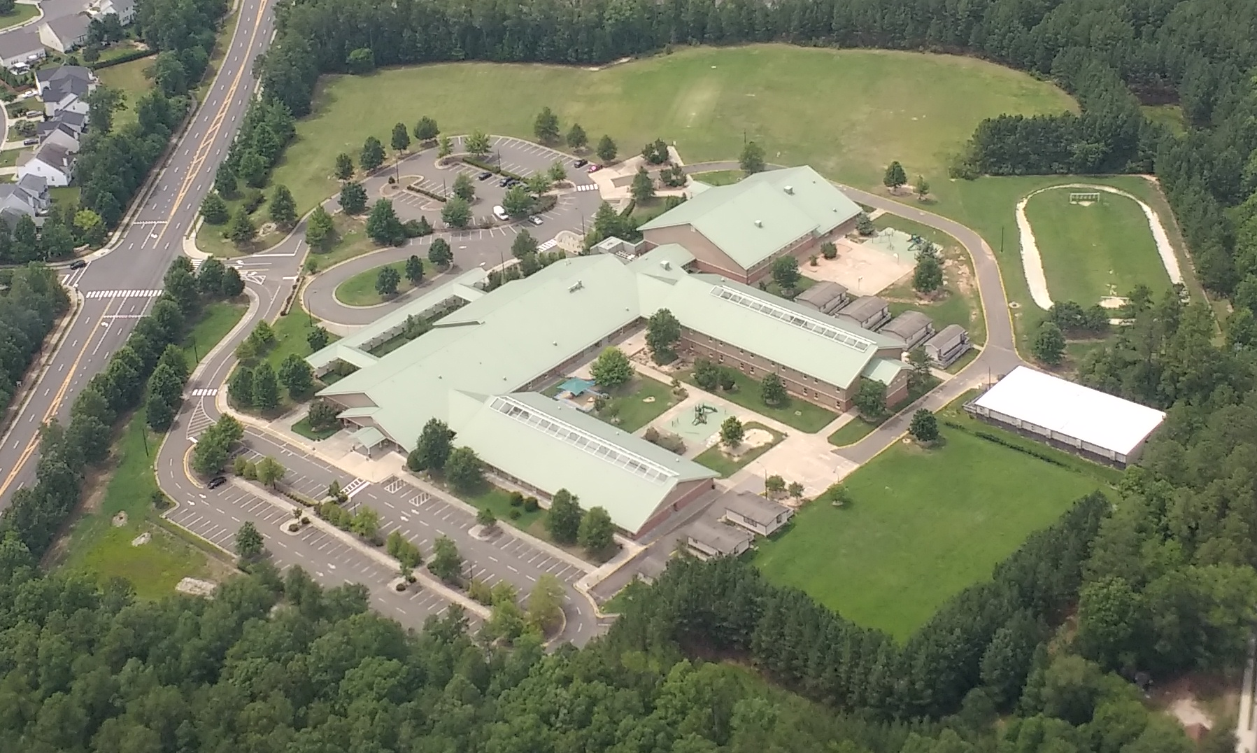 Aerial view of Cedar Fork Elementary School in Morrisville, North Carolina.